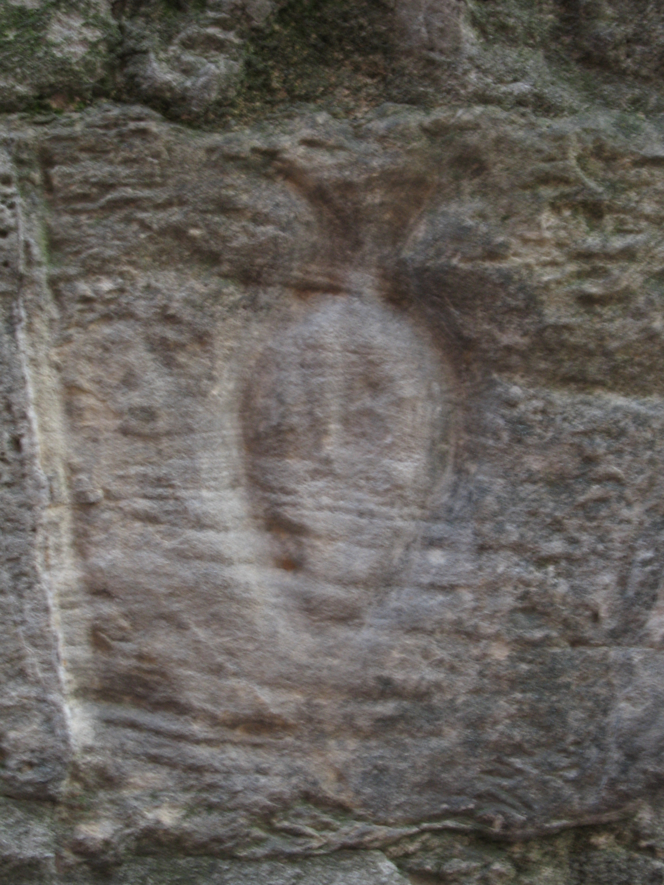 A detail from the basement of the medieval wall, where is located the "Porta Pediculosa" (the southern medieval city gate, whose name in italian sounds similar to "lousy gate"), it is quite visible the drawing of a louse: according to tradition from which derived the name of the city gate (from-the-south entered the peasant of the countryside).